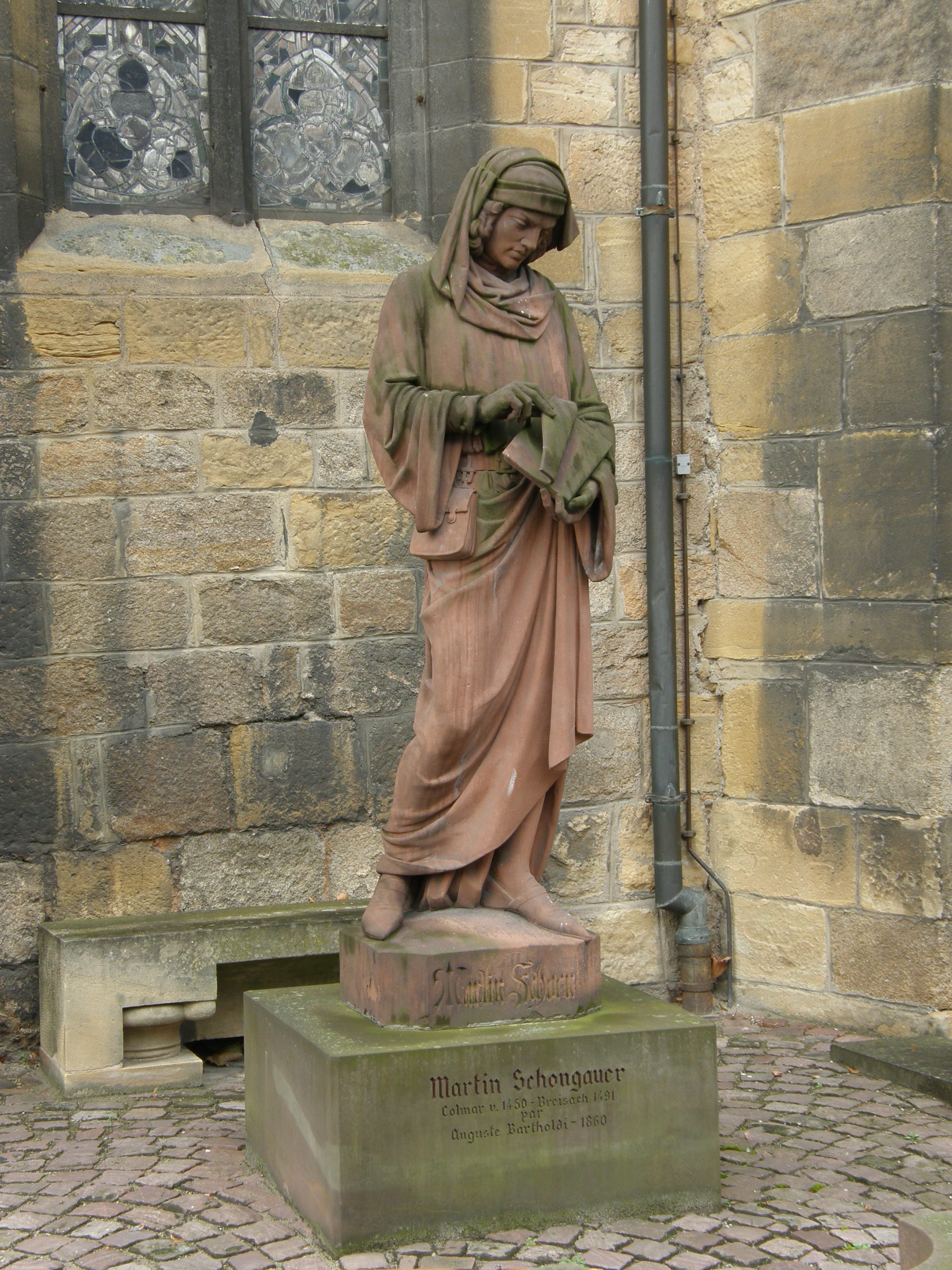 Statue of Martin Schongauer by Frédéric Auguste Bartholdi (1860), in front of Unterlinden Museum in Colmar (Haut-Rhin, France).